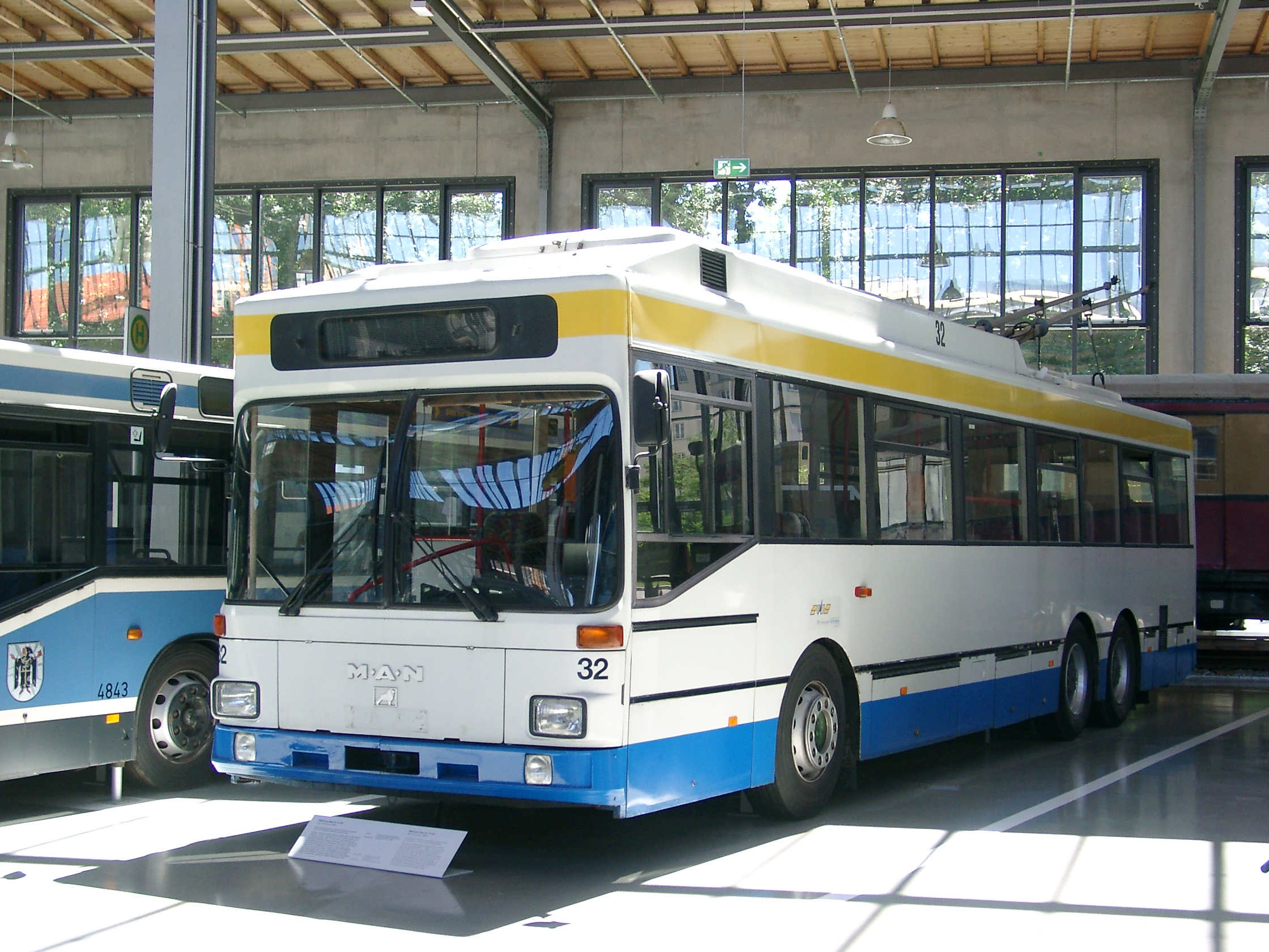 Trolleybus Solingen 32